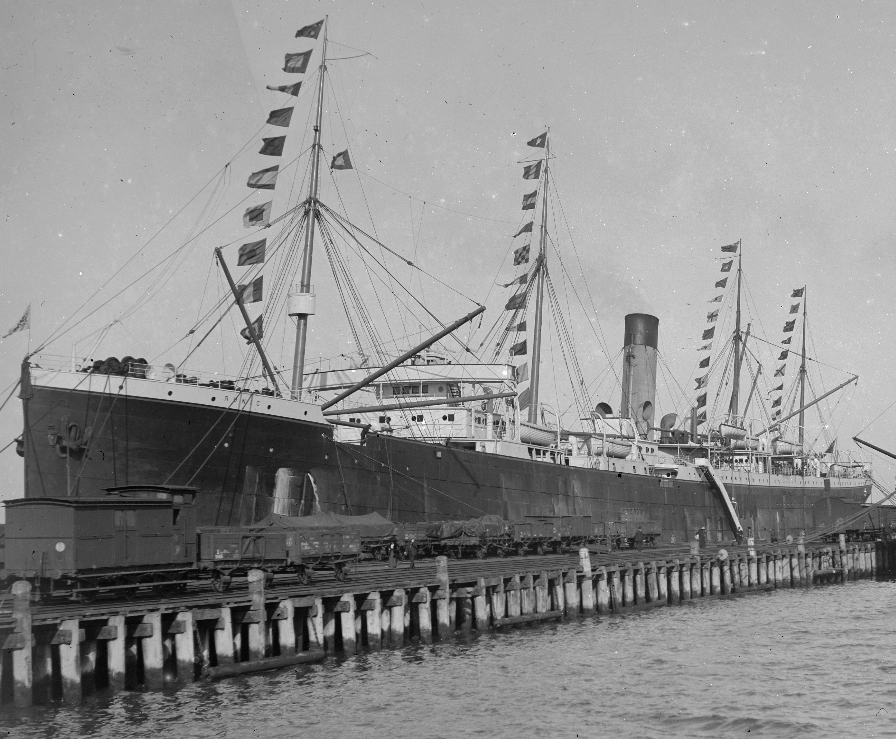 The steamship and White Star Liner Runic at harbour.